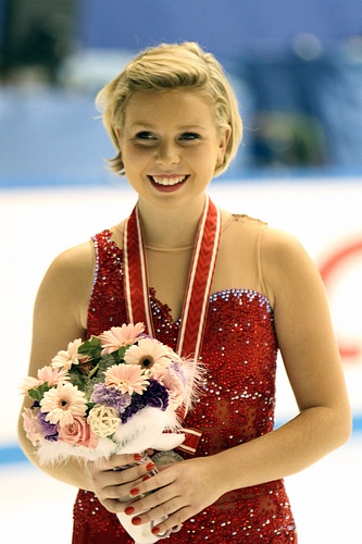 Rachael Flatt at the 2010 NHK Trophy.